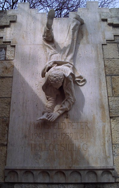 Relief of Péter Mansfeld in Budapest District I, Szabó Ilonka Street